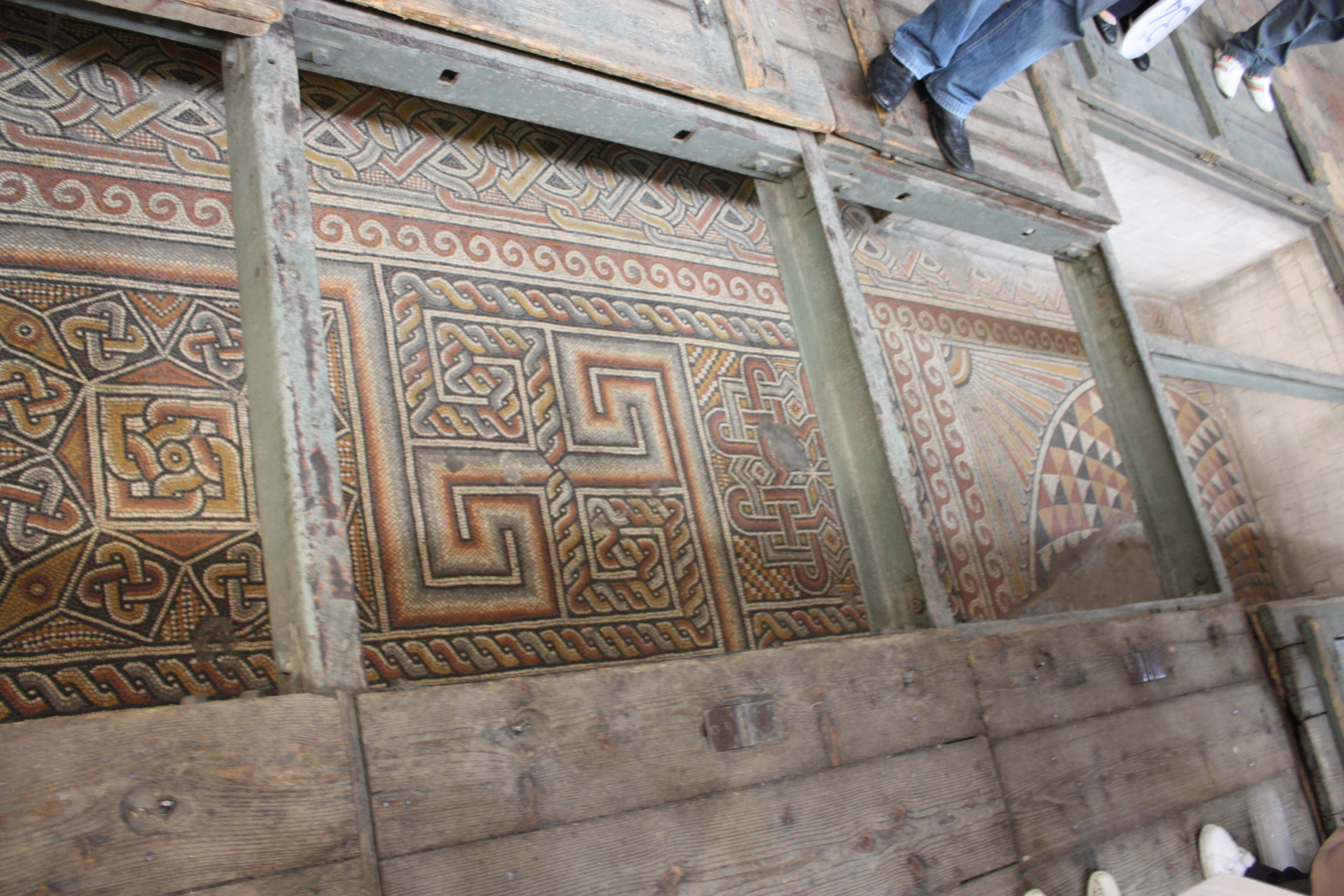 Original mosaic floor of the Church of the Nativity from the time of Constantine.